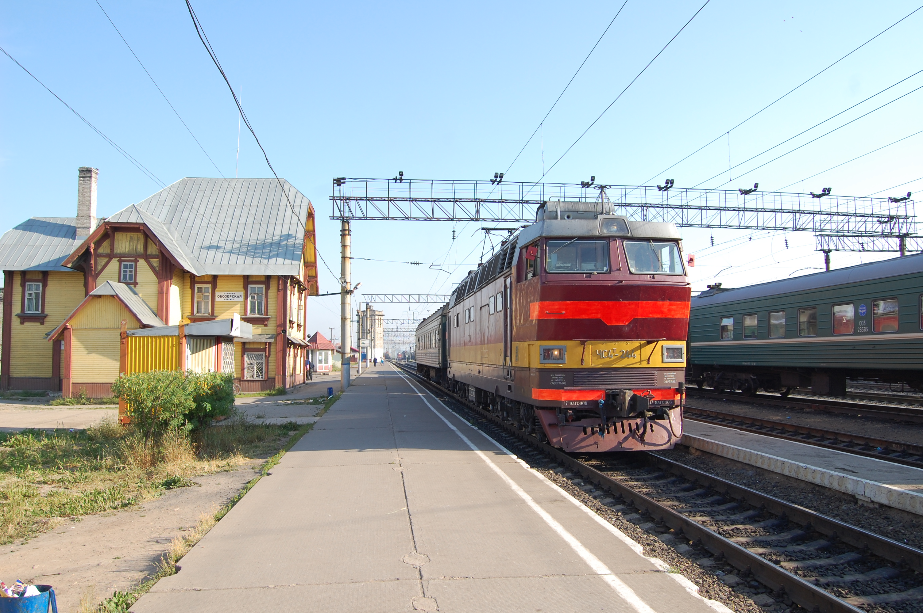 Electric locomotive CS4t-244. Platform & the railway (Obozersky, Arkhangelsk Region, Russia)